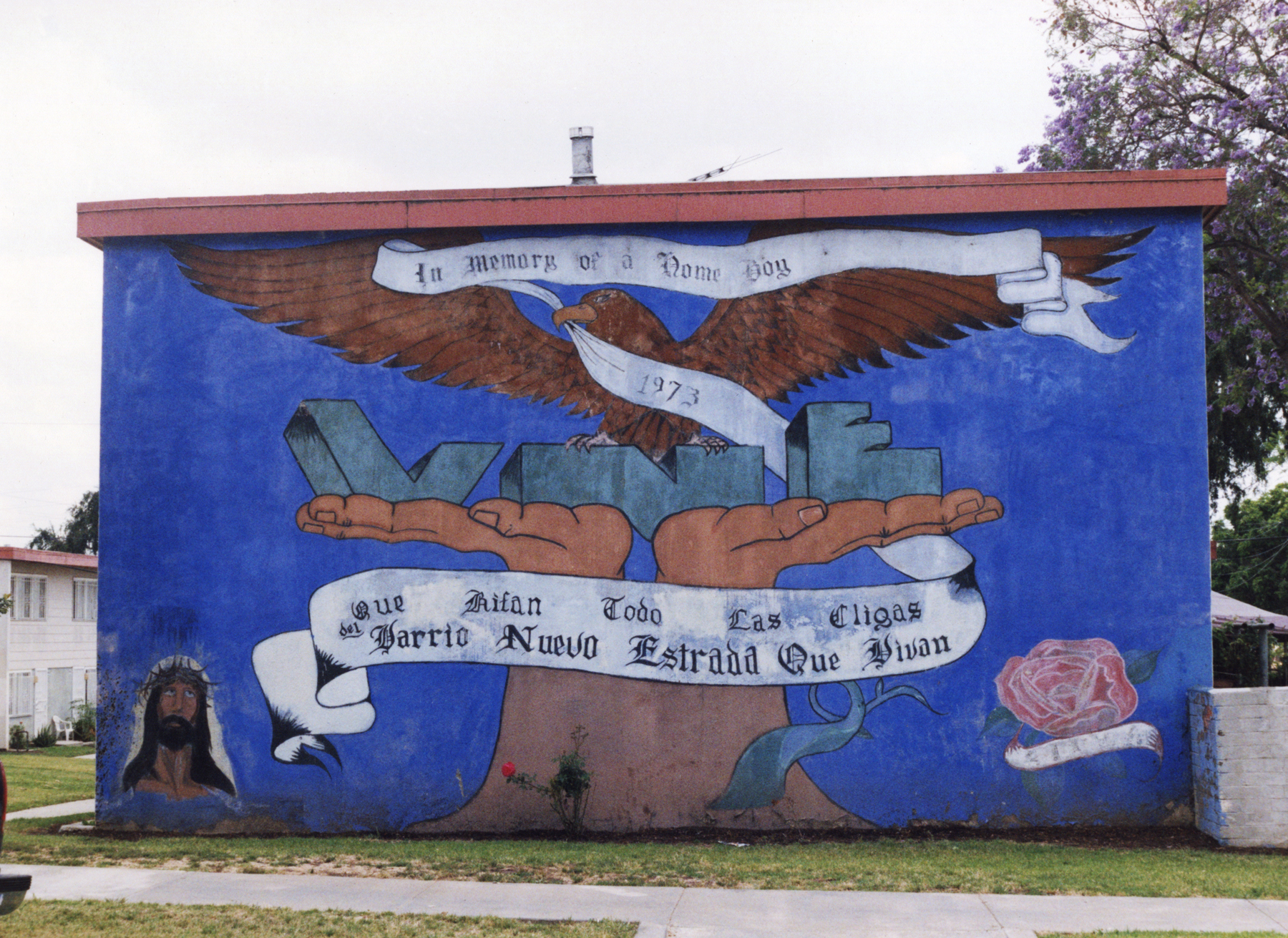 Photo of one of the main entrances to Estrada Courts. original film photograph.